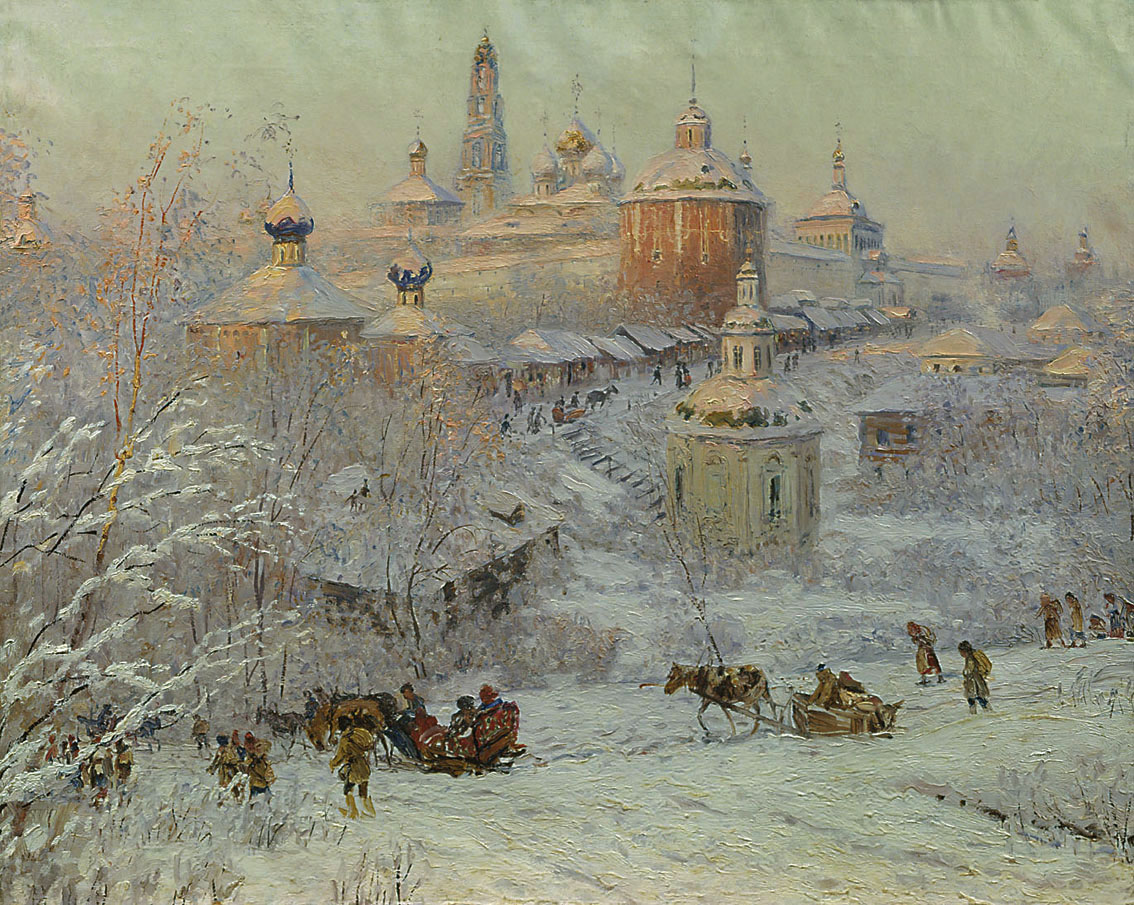 Nikolay Dubovskoy. In Trinity Lavra of St. Sergius